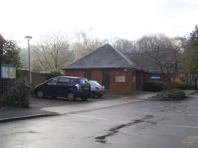 Cuxton Library On Bush Road. Near Cuxton Primary School.